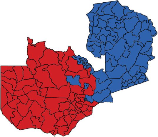 Results Map of the Zambian general election, 2016. Edgar Lungu (PF) Hakainde Hichilema(UPND)